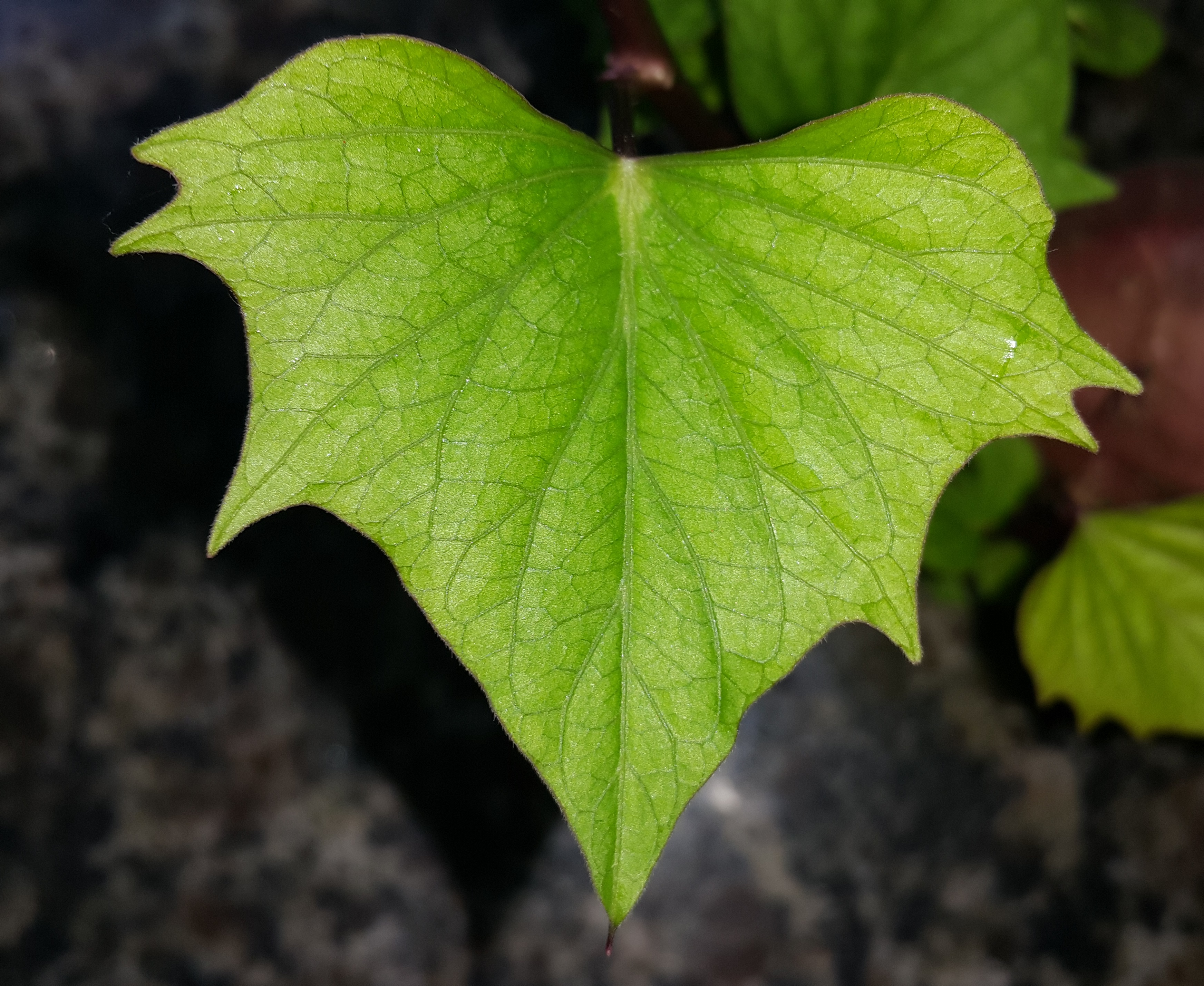 A leaf of Ipomoea batatas (sweet potato).